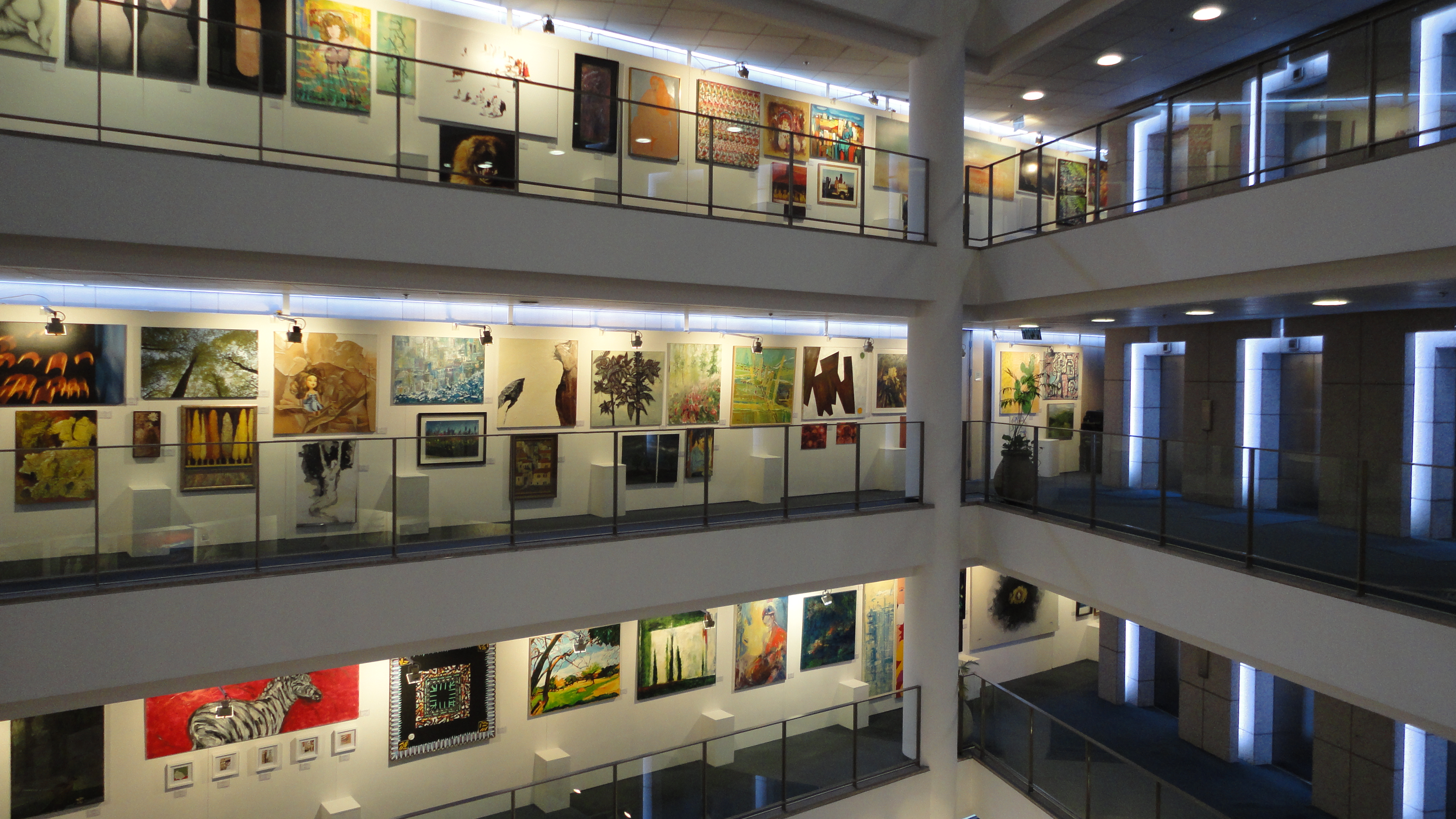 IMAGINATION 2012, Hiv benefit exhibition Bank Hapoalim, 63 Yehoda Halevi st., Tel Aviv.